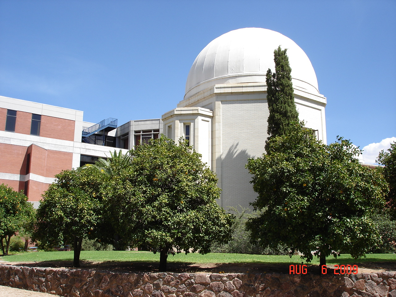 The file shows the image of the observatory.